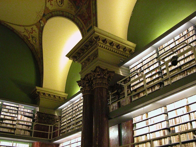 Wolfenbüttel, Germany: Detail no. 1 inside Herzog August Library.